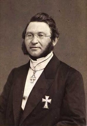 Christen Andreas Fonnesbech (1817-1880), Danish jurist, Prime Minister of Denmark, Minister of Education and Ecclesiastic Affairs, MP